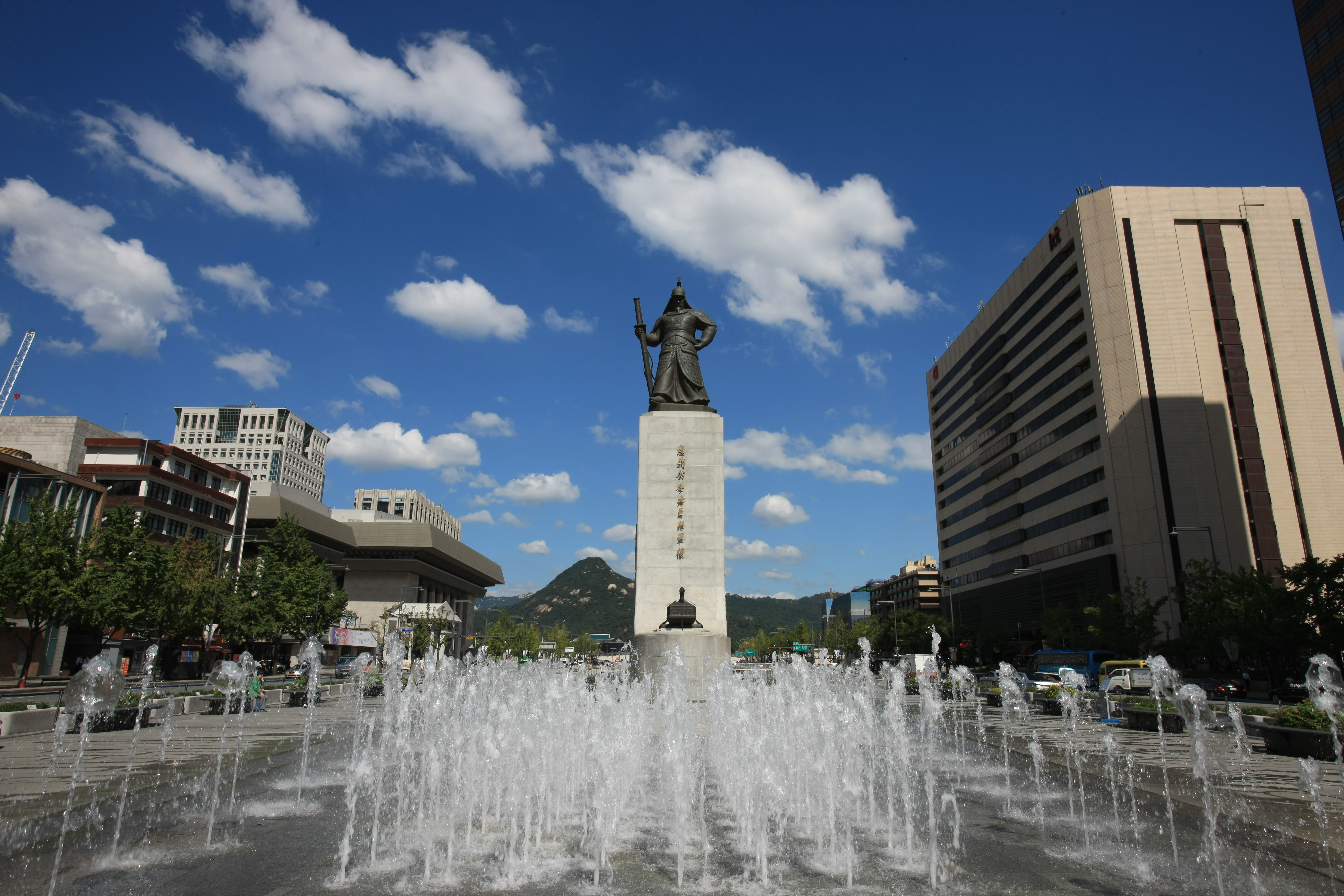 서울특별시 소방재난본부 소장 사진. photos of Seoul Metropolitan Fire&Disaster Headquarters. 이 파일은 크리에이티브 커먼즈 저작자표시-동일조건변경허락 4.0 국제 라이선스로 배포됩니다. 단 특정할 수 있는 개인이 미디어 자료에 포함되어 있을 경우 사용 전에 서울특별시 소방재난본부 및 해당 인물의 승인을 받으셔야합니다. 감사합니다.